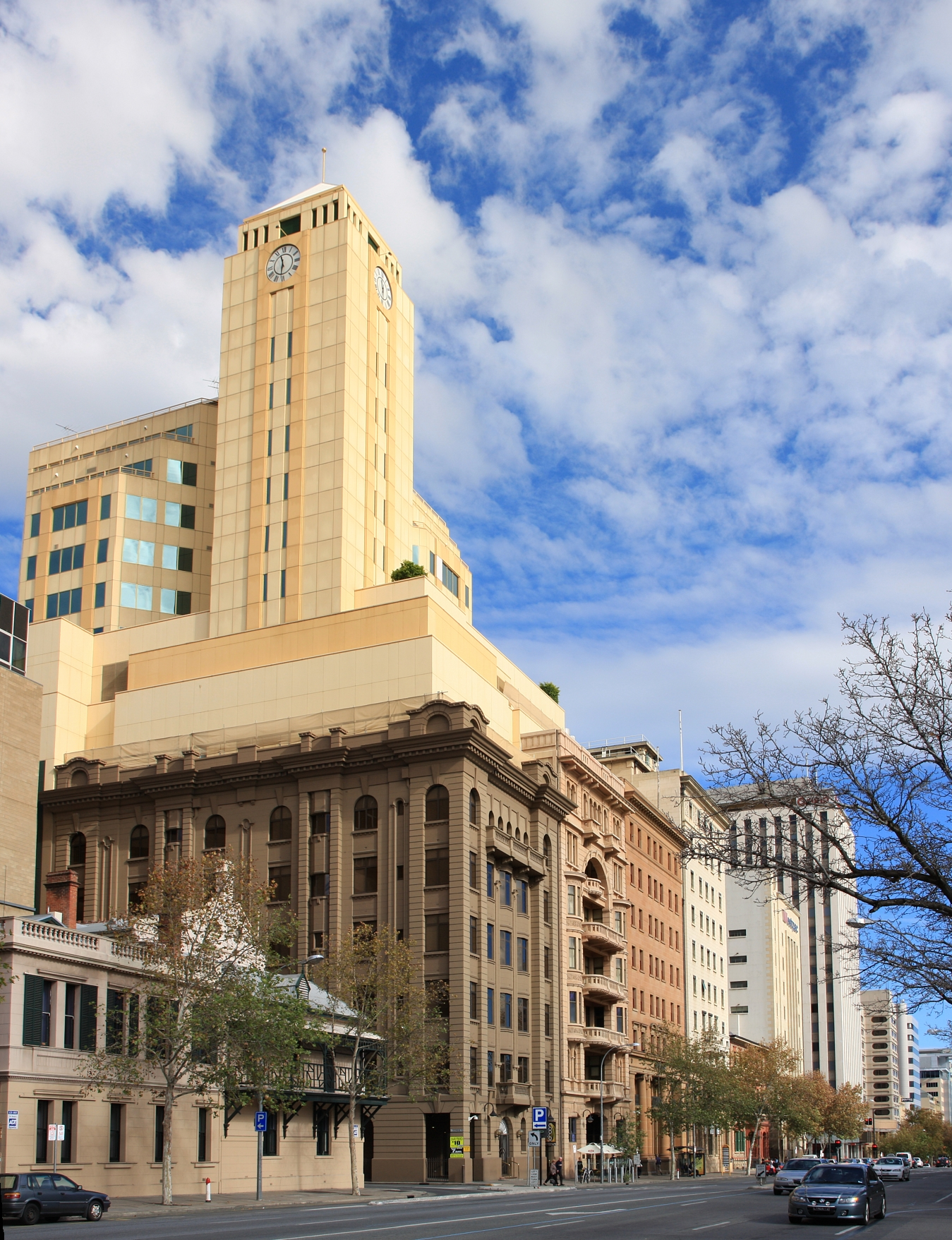 Nth TCE Adelaide